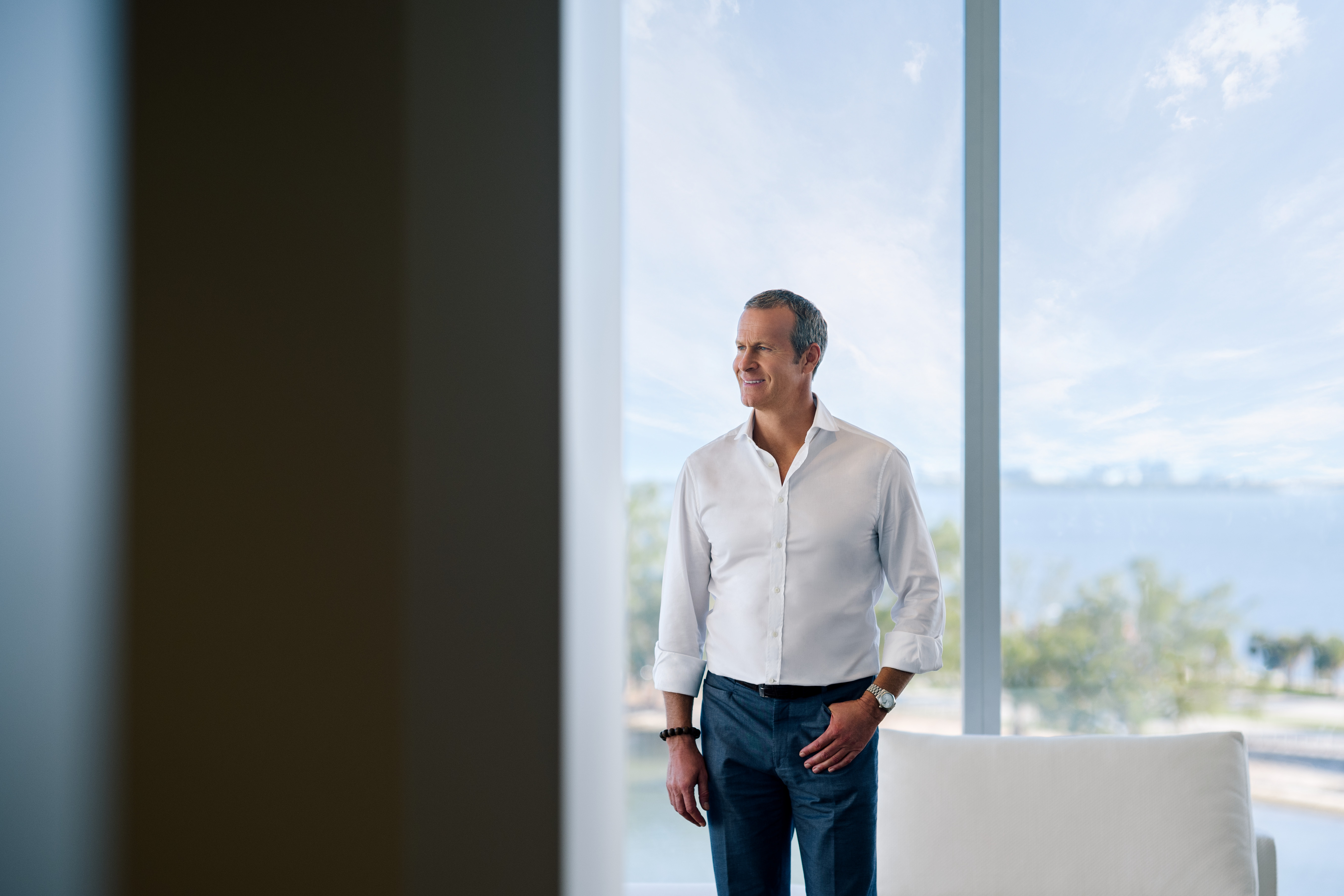 Vladislav Doronin at the Una Residences